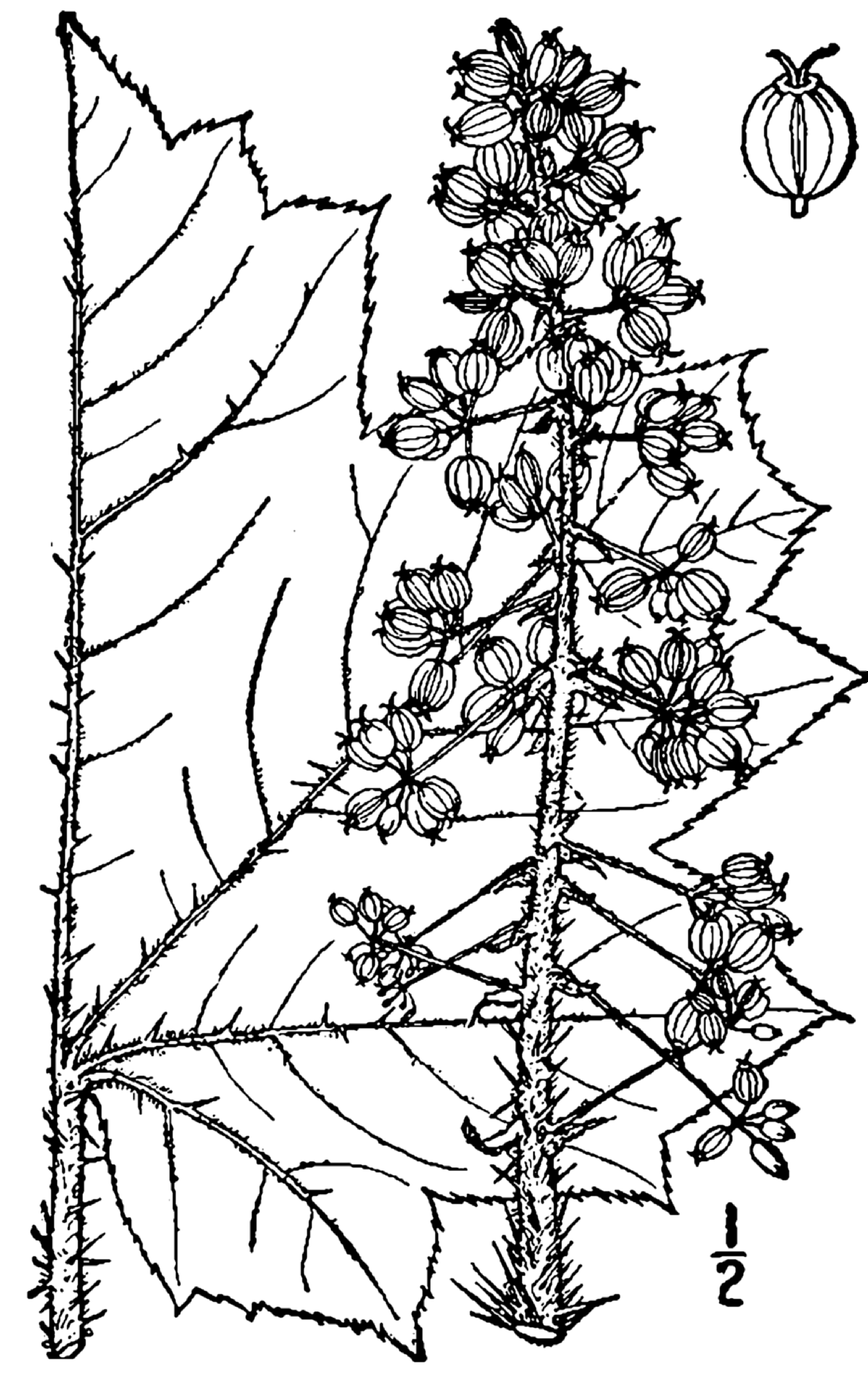 Oplopanax horridus, Devilsclub. Synonyms: Echinopanax horridus.